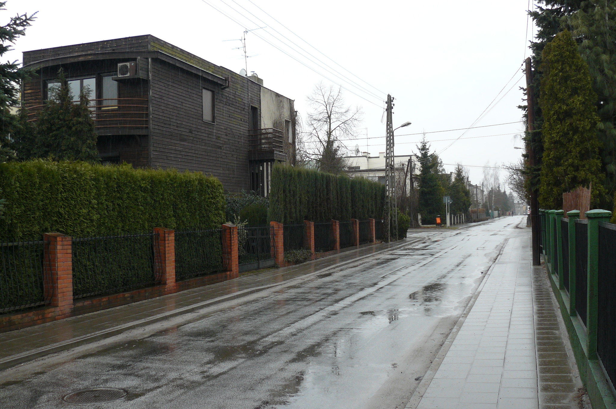 Poznan, Nowogrodzka Street, Czekalskie District.